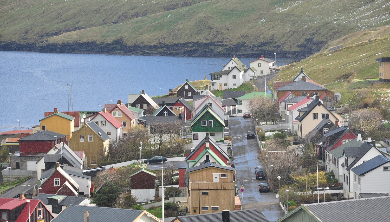 Street in Syđrugøta on the island of Eysturoy, Faroe Islands